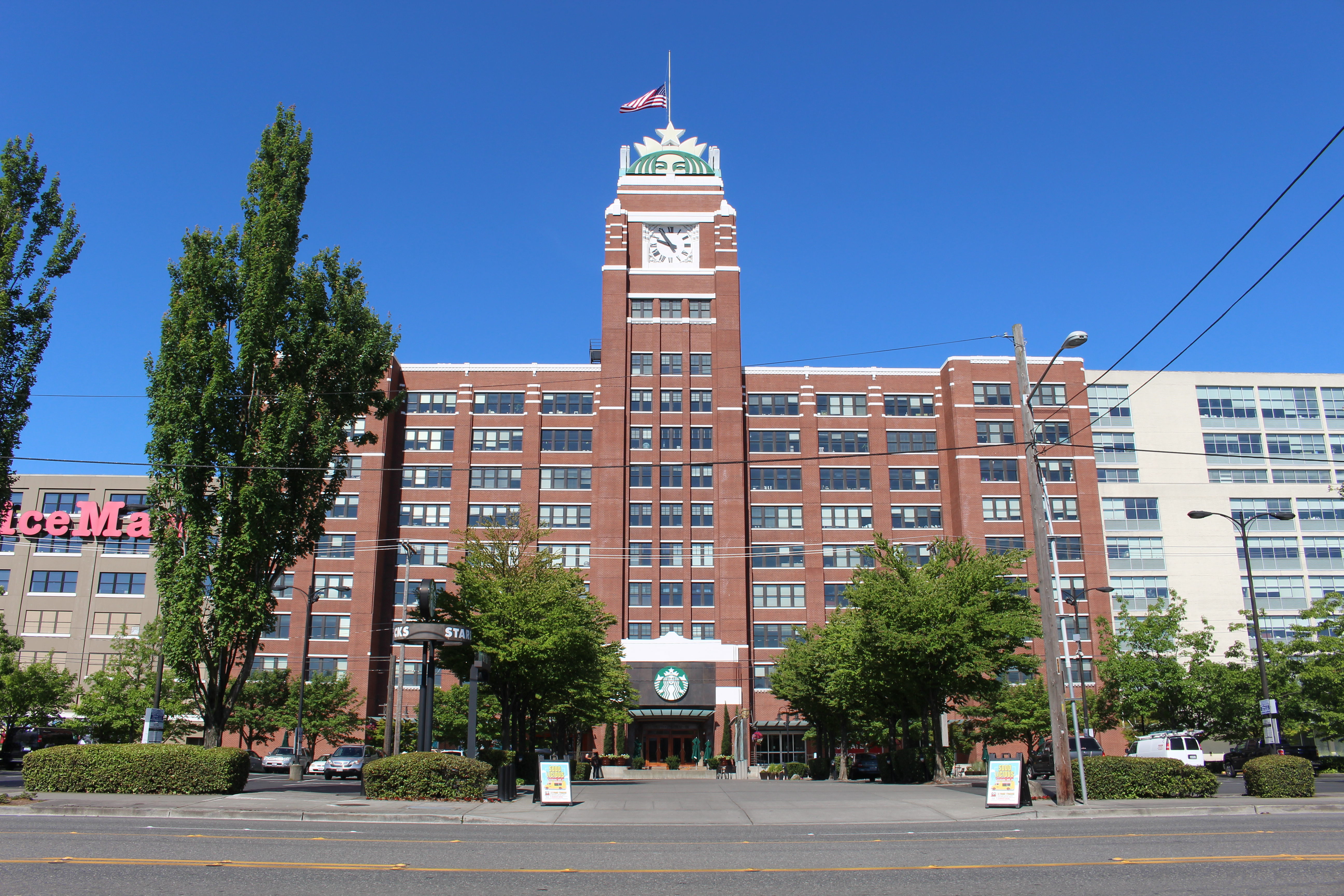 Starbucks Center in Seattle, Washington (headquarters of Starbucks Coffee). Photographed by user Coolcaesar on May 30, 2016.